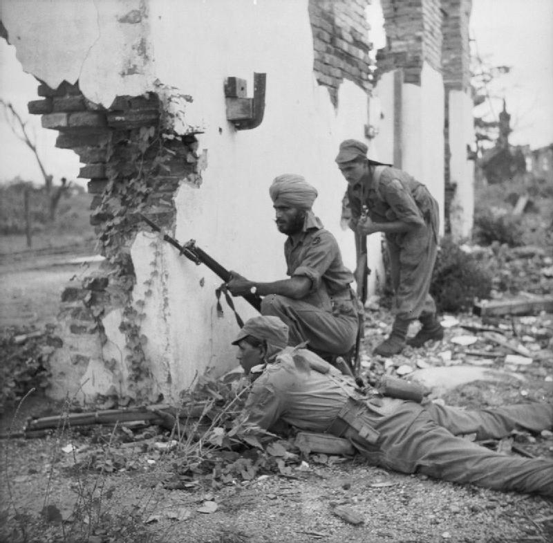 The British Army in Burma 1945 Indian troops of the 20th Division search for Japanese at the badly damaged station in Prome, 3 May 1945.